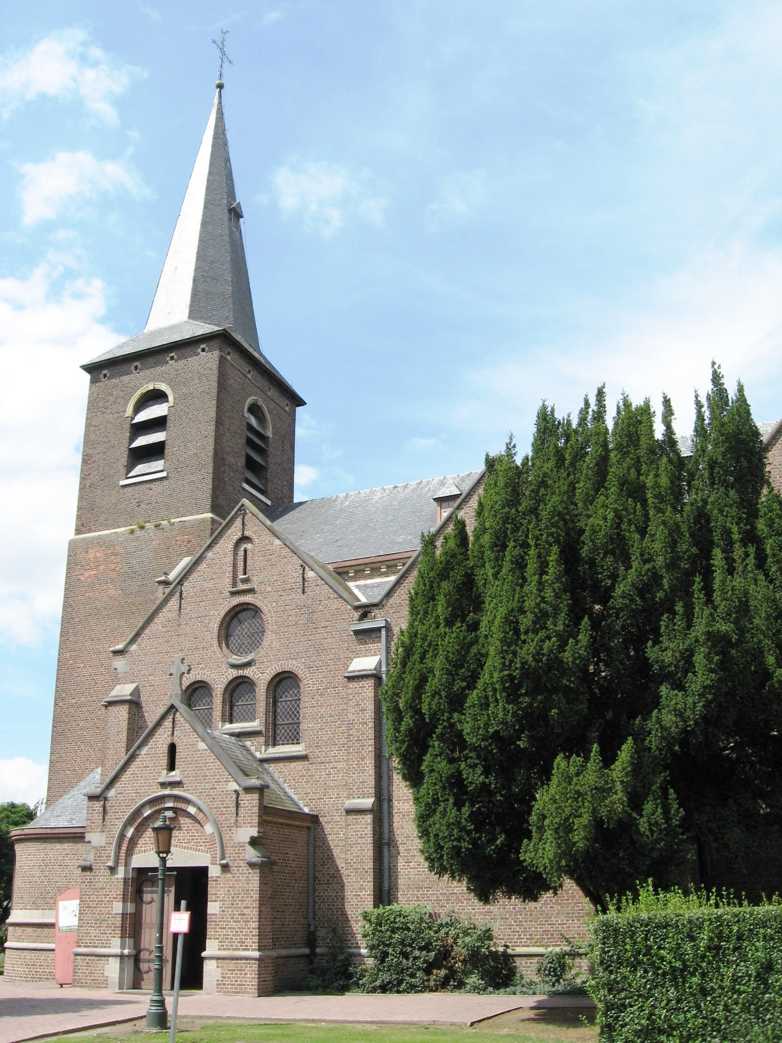 Church of Saint Peter in Nieuwerkerken, Limburg, Belgium